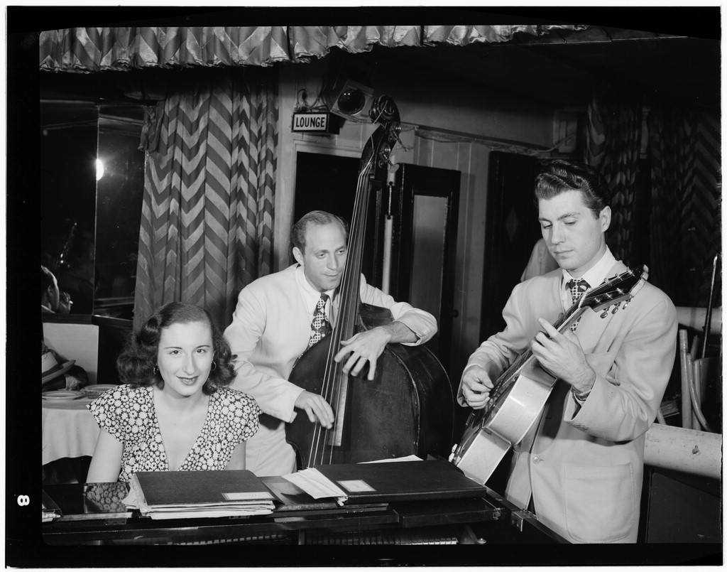 Barbara Carroll, Clyde Lombardi, and Chuck Wayne, Downbeat, New York, N.Y.